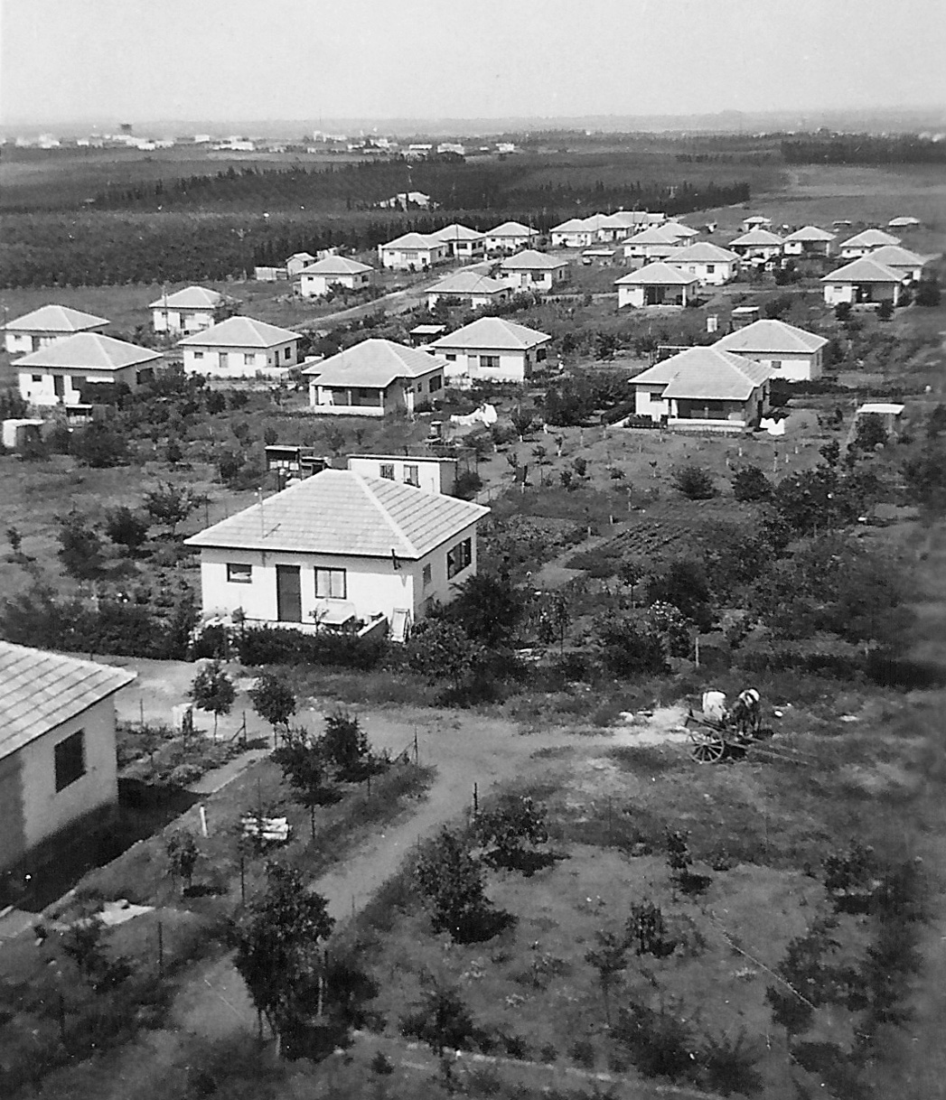 First houses.First years-2, Architecture of Israel